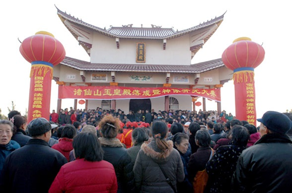 People gather for worship at an ancestral shrine in Hong'an, Hubei, China.